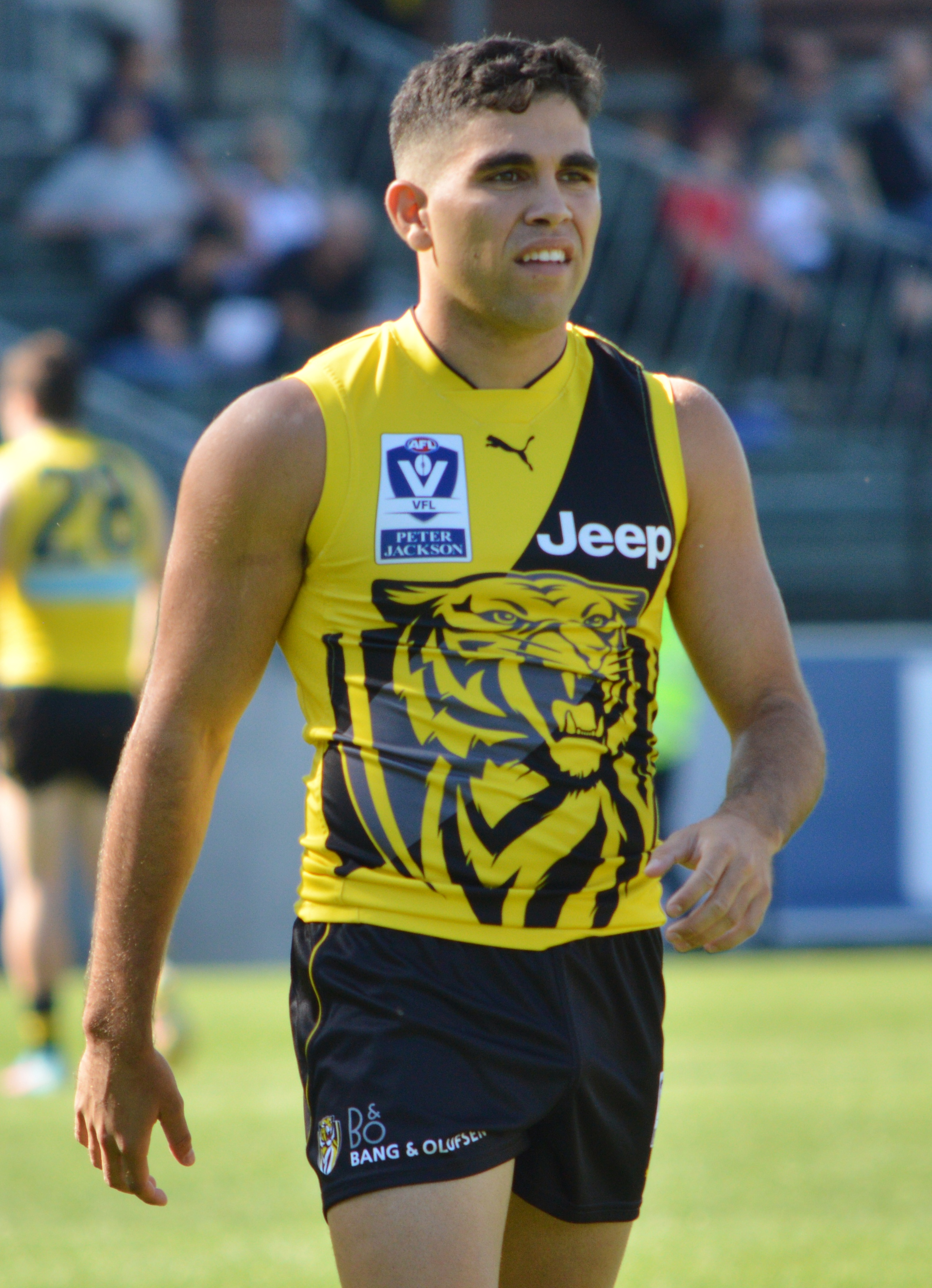 Tyson Stengle with Richmond during a VFL practice match against the Northern Blues in March 2018